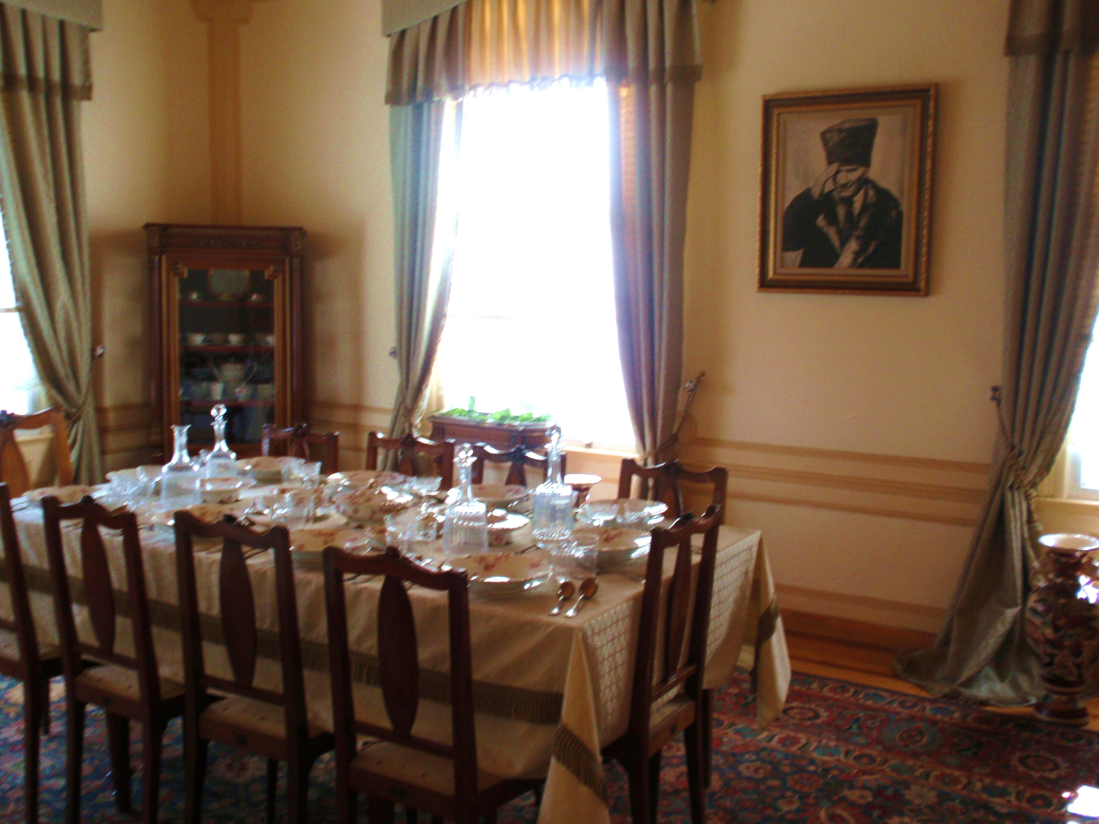 Bursa, Museum of Atatürk